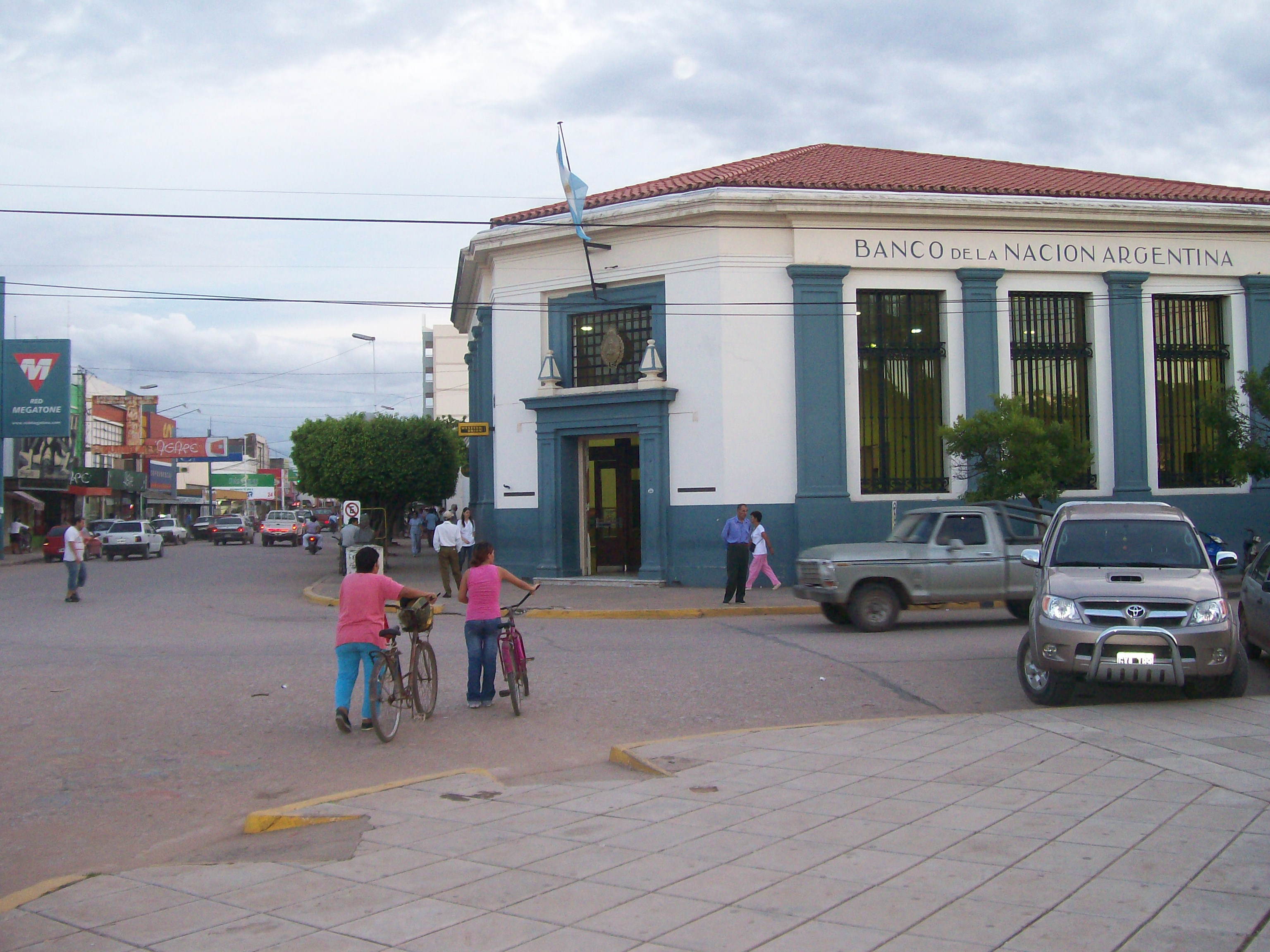 Banco de la Nación Argentina (Argentina National Bank) branch on 12th Street, in Presidencia Roque Sáenz Peña (Chaco Province, Argentina).